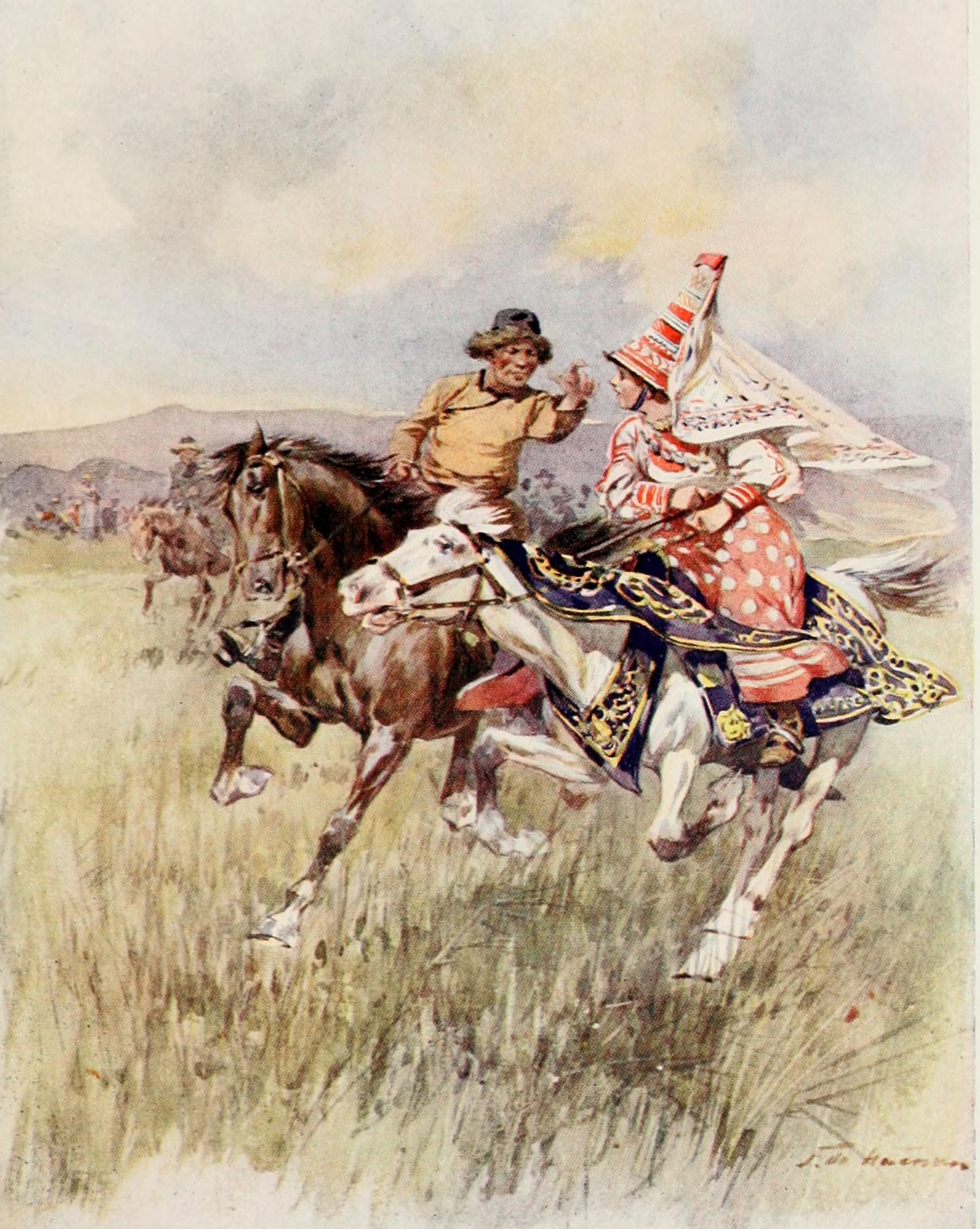 A Kirghiz wooing, c. 1913. Painted by Frédéric de Haenen